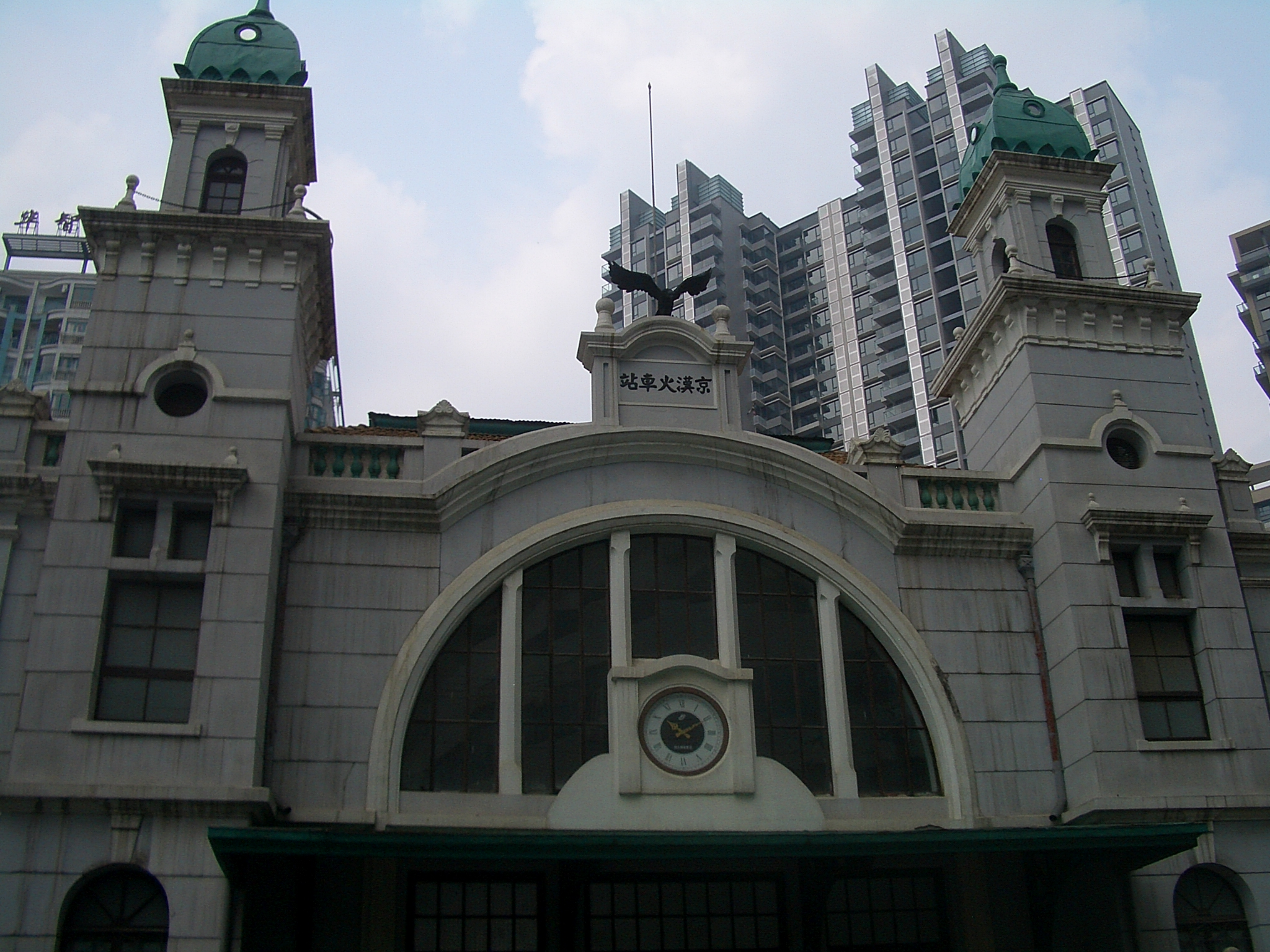 The disused Hankou Dazhimen Station - the original terminal of the Beijing to Hankou Railway